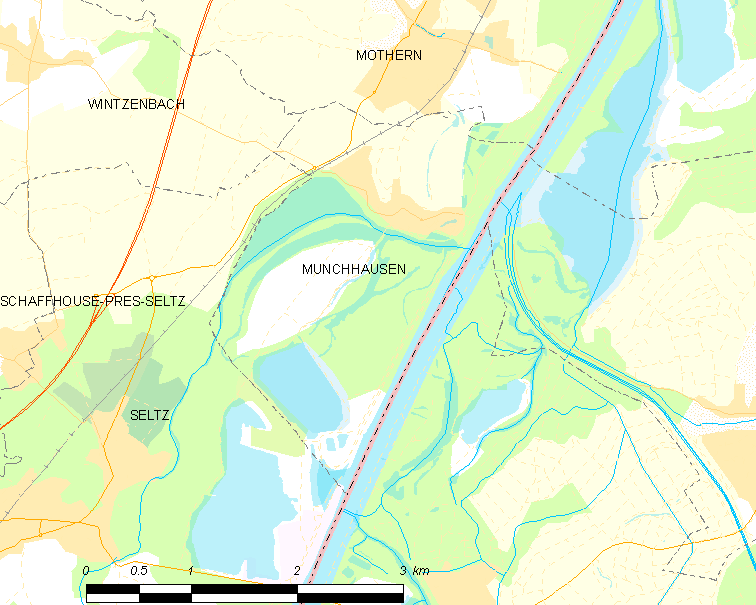 Map of French municipality